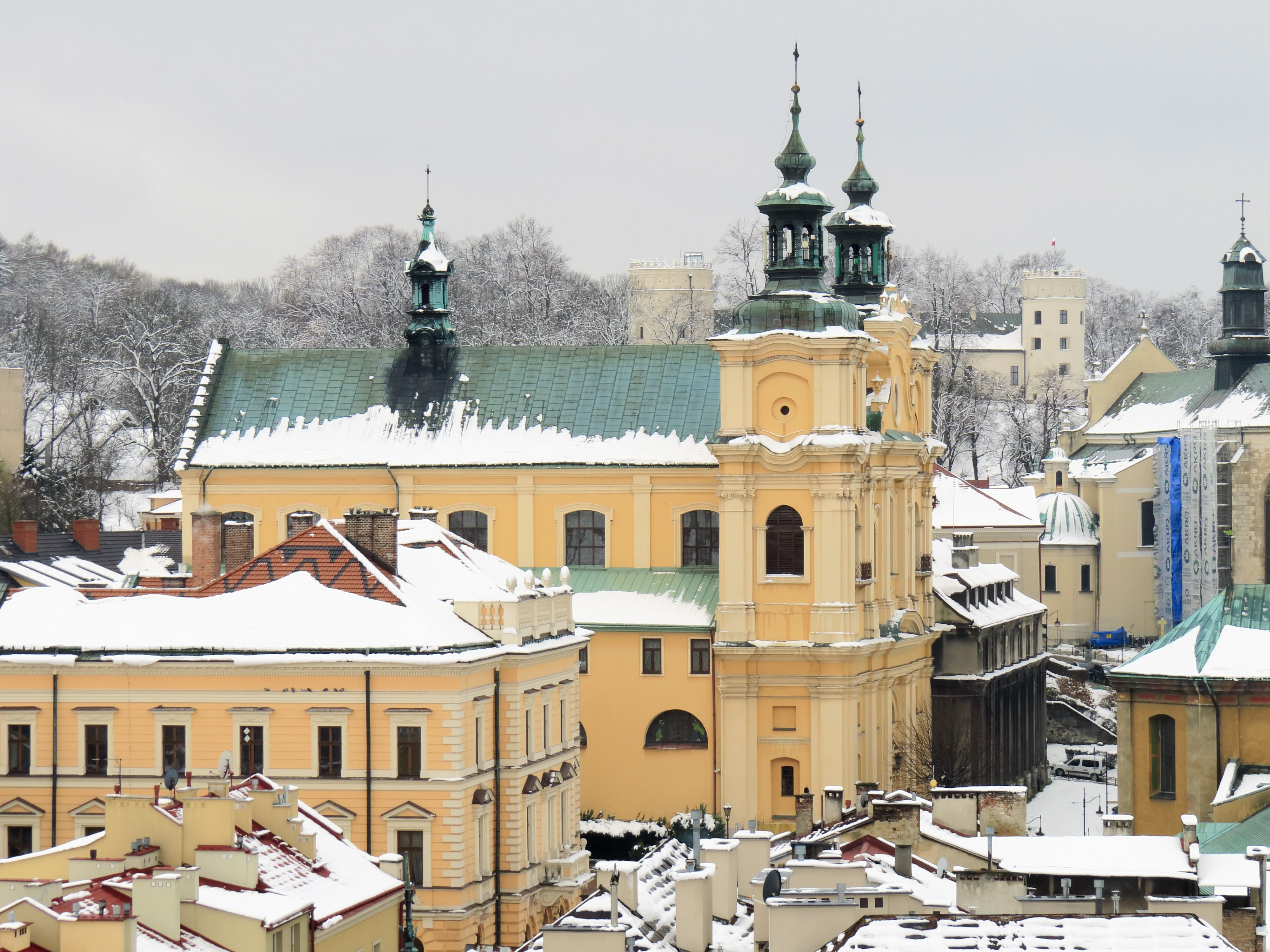 Cathedral of St. John the Baptist in Przemyśl - View from Clock tower